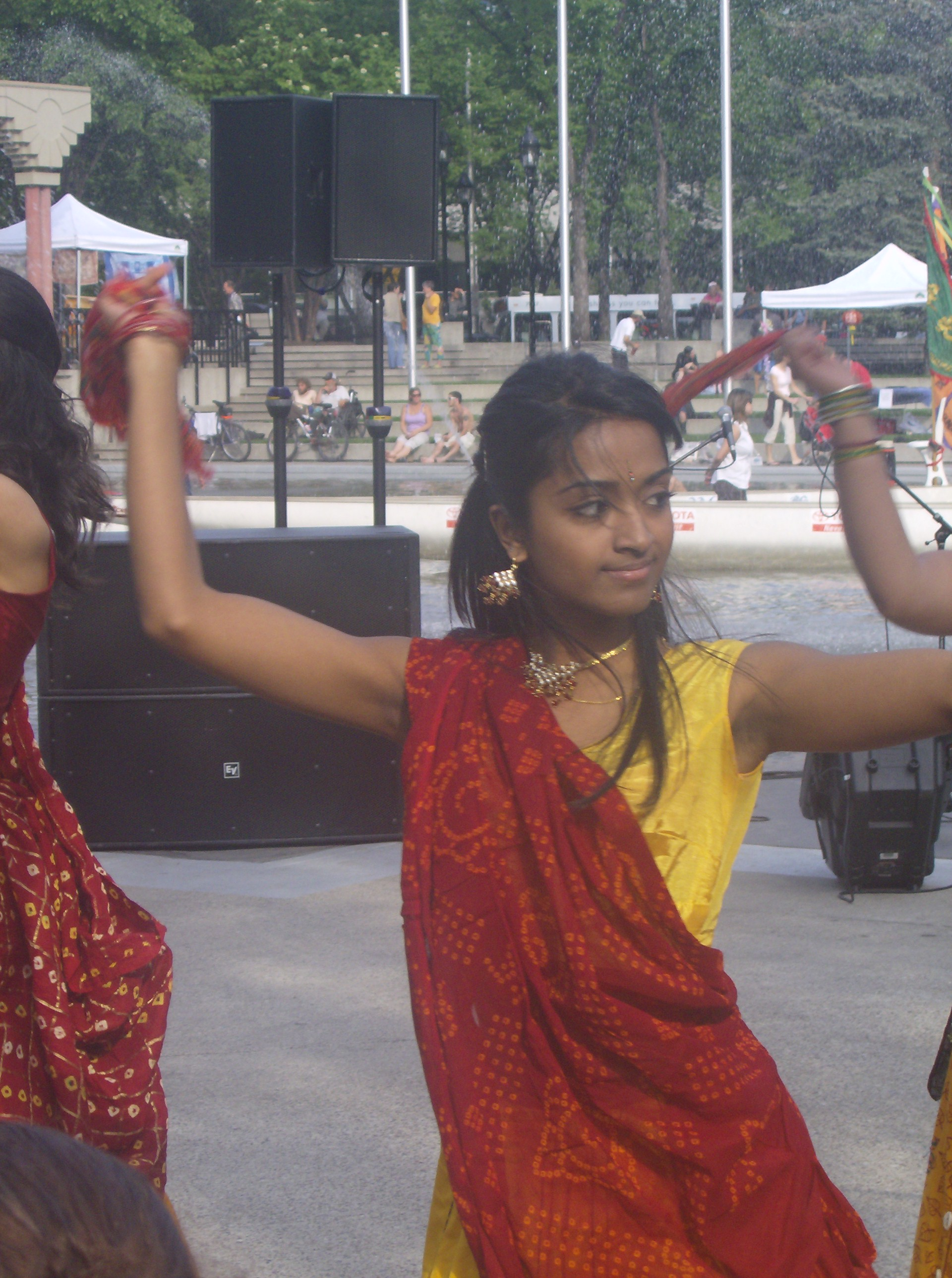 This picture was taken at the ImaginASIAN Night Market, which took place at Calgary's Olympic Plaza on Saturday, June 2, 2007. The girl was part of a group performing a folk dance from Gujarat, India.